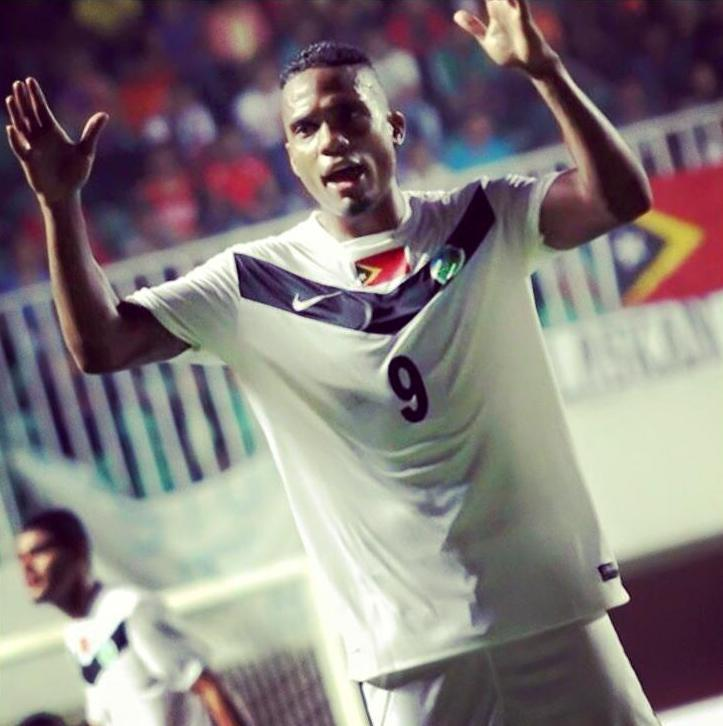 Pedro Henrique Oliveira with Timor Leste U23 Team. 14 December 2013 2013 South East Asian Games Against Indonesia Photographer email id